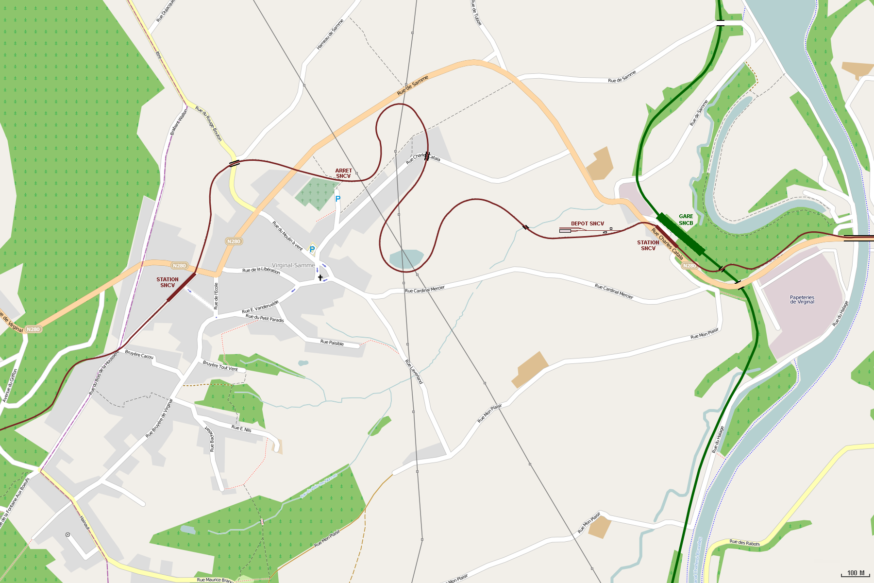 Keywords: SNCB; SNCV; railways; Virginal-Samme; Belgium